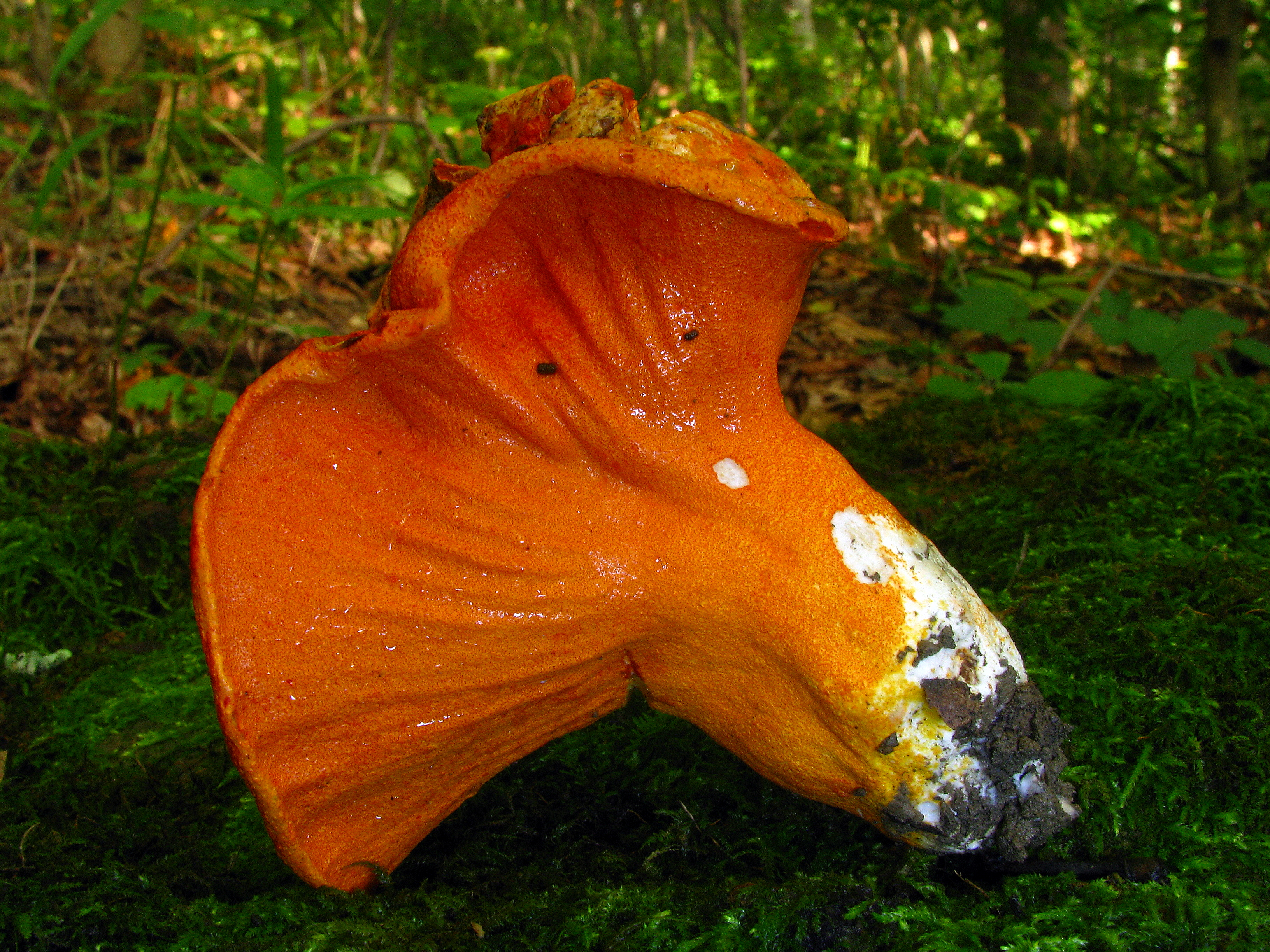 Hypomyces lactifluorum (Schwein.) Tul. & C. Tul.